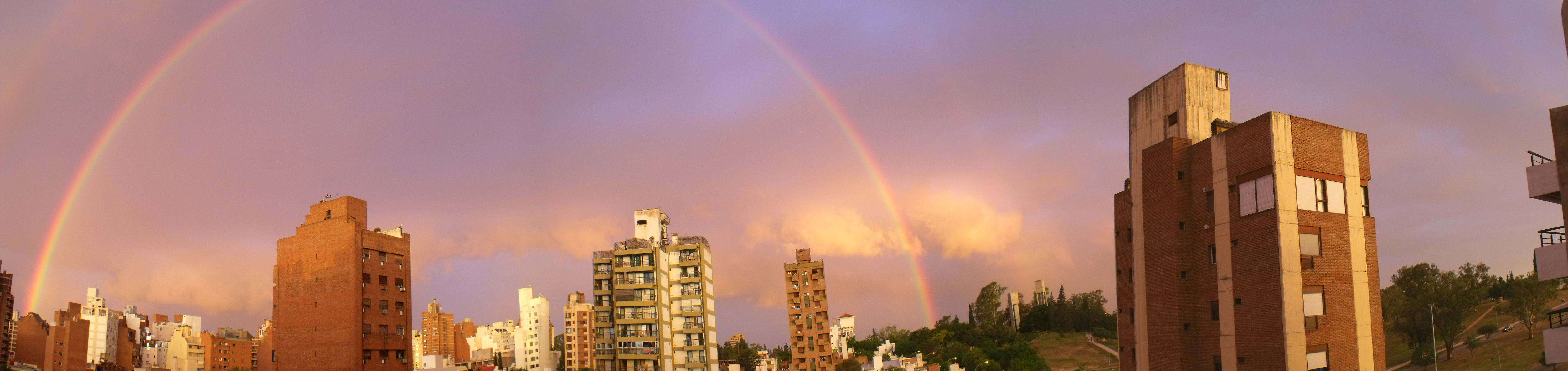 Rainbow over Nueva Cordoba neighborhood. Cordoba, Argentina.